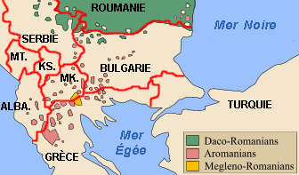 Map of the romance languages-speaking populations in Balkans (french)